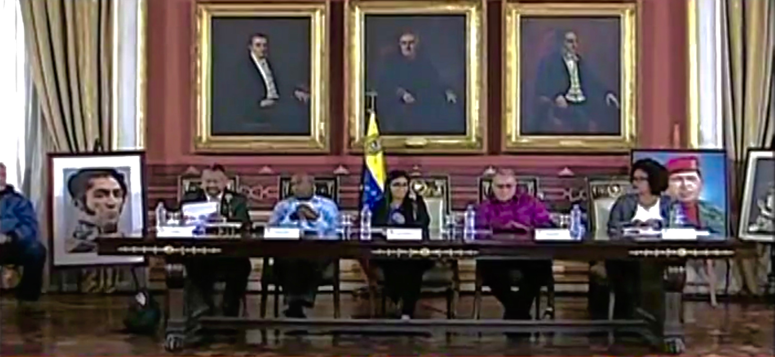 The 2017 Constituent Assembly of Venezuela during their first meeting in the Salon Eliptico of the Federal Legislative Palace.